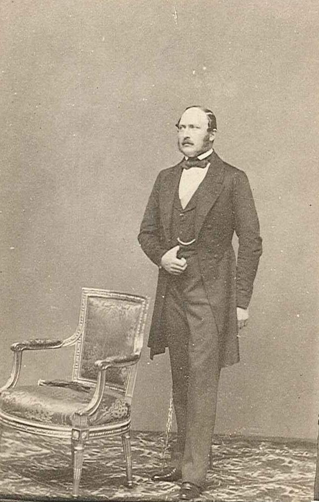 Prince Consort Albert of Saxe-Coburg-Gotha (1819-1861)